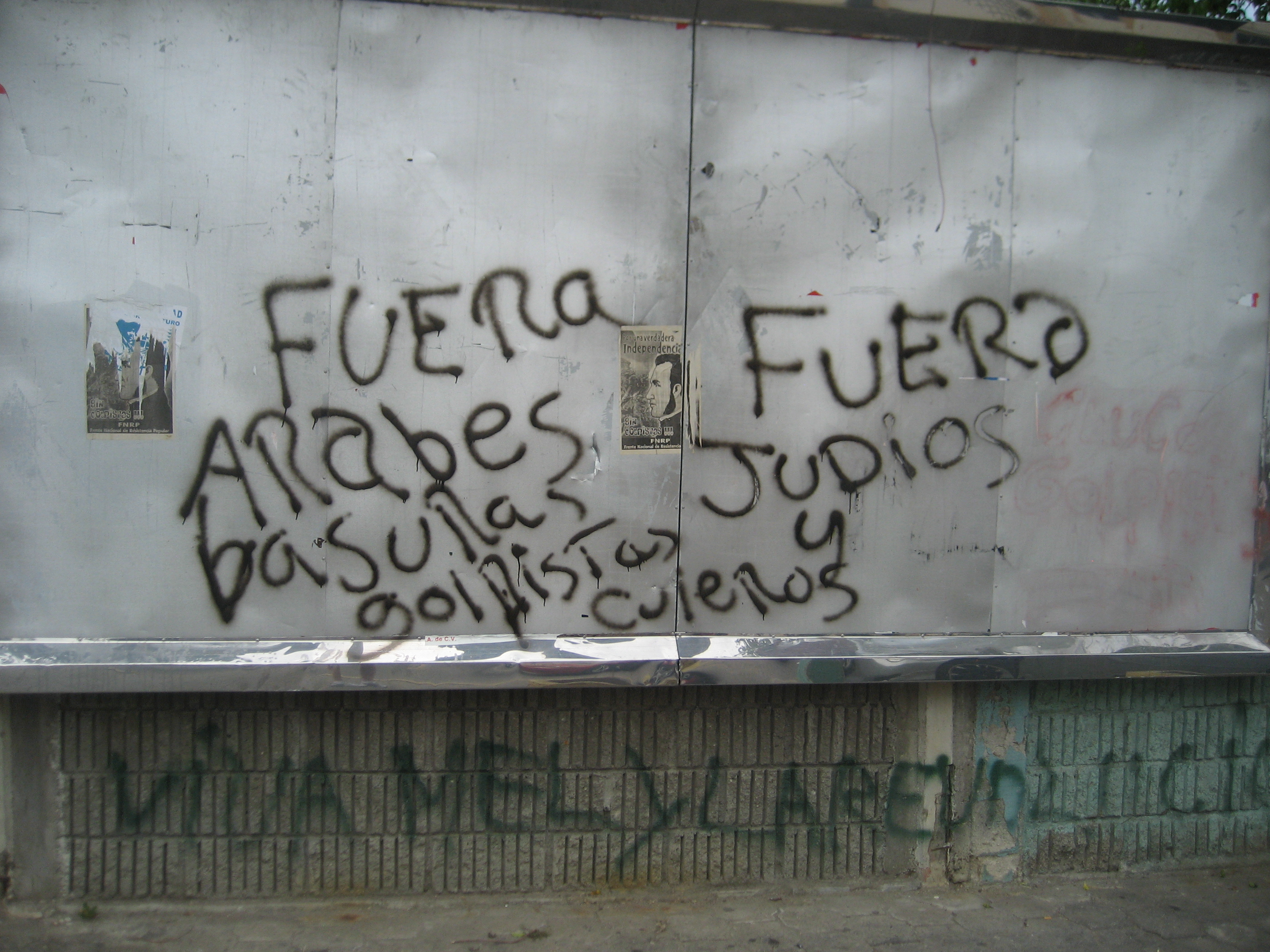 Anti-semitic graffiti in San Pedro Sula, Honduras.